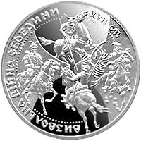 Coin of Ukraine